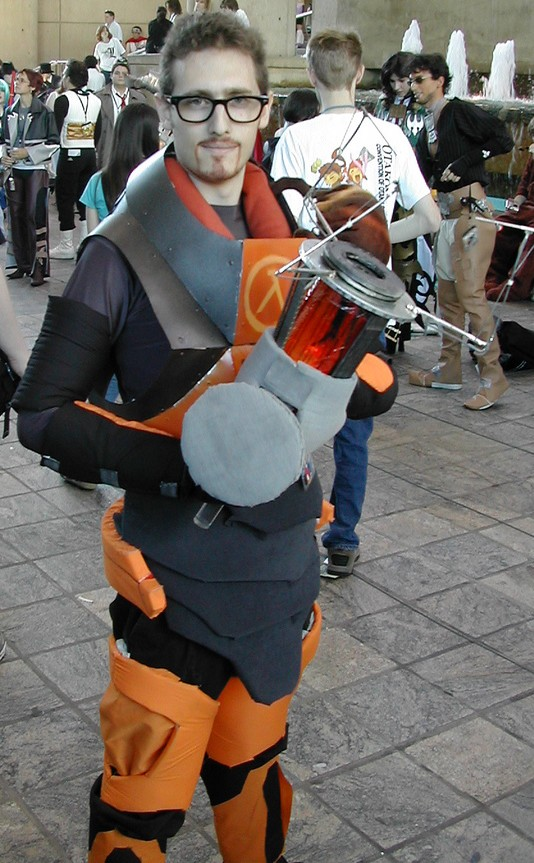 A man cosplaying as Gordon Freeman, the protagonist from the Half-Life franchise.